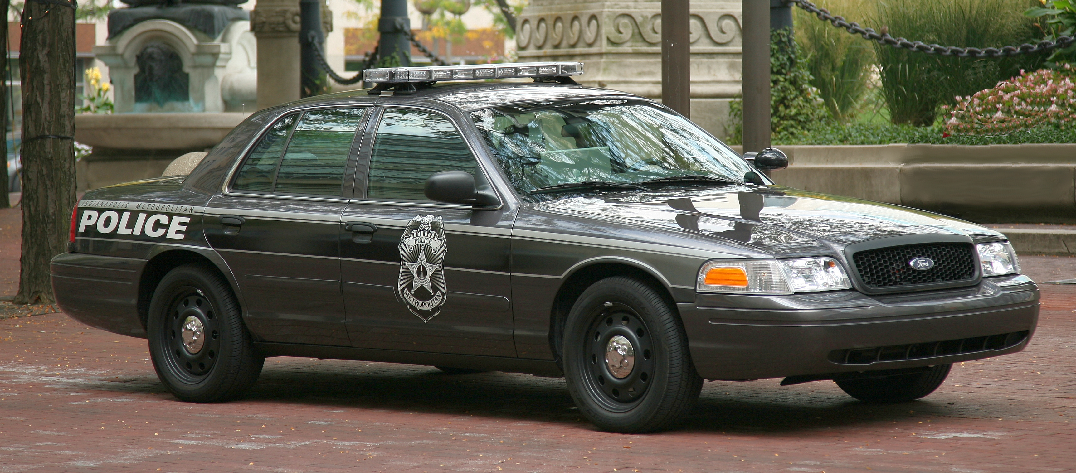 Indianapolis Metropolitan police cruiser